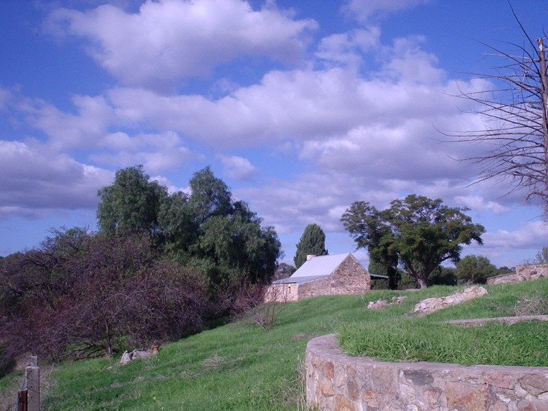 ruins at the rear of Yatala Labour Prison, Grand Junction Road, South Australia. Mostly part of the former property of R.M. Williams